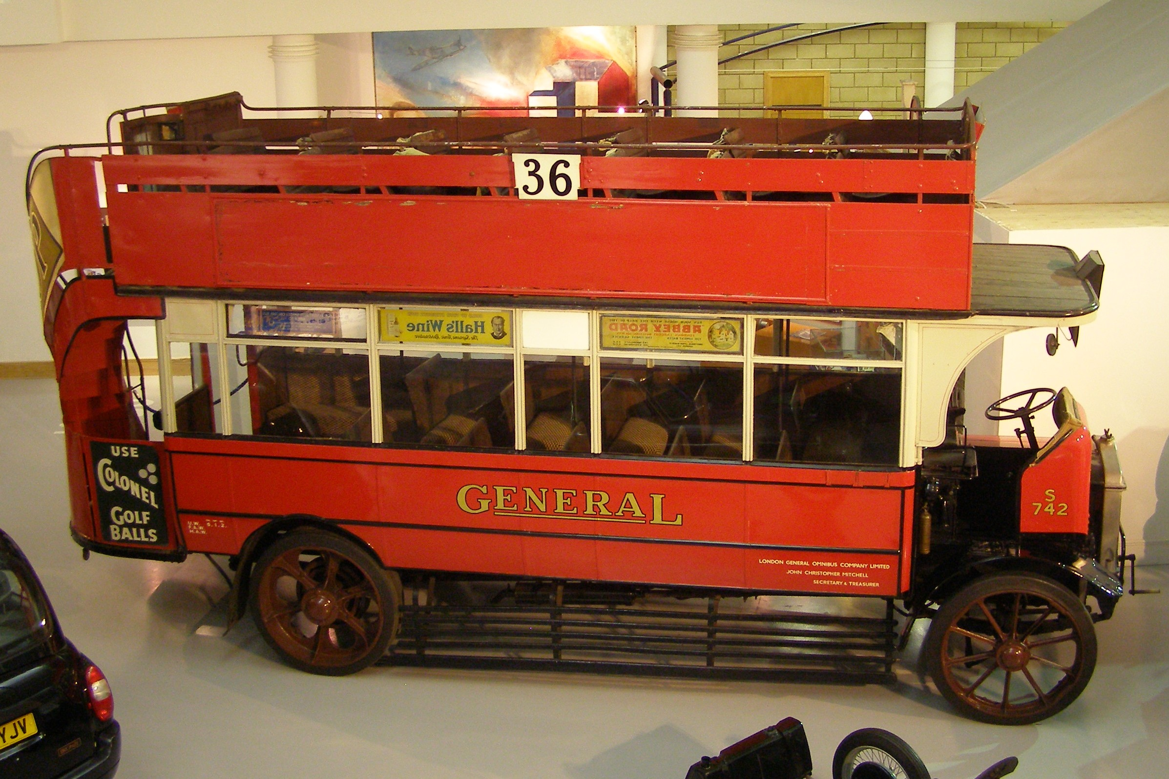 AEC S-Type Bus (S742) at the Heritage Motor Centre, Gaydon